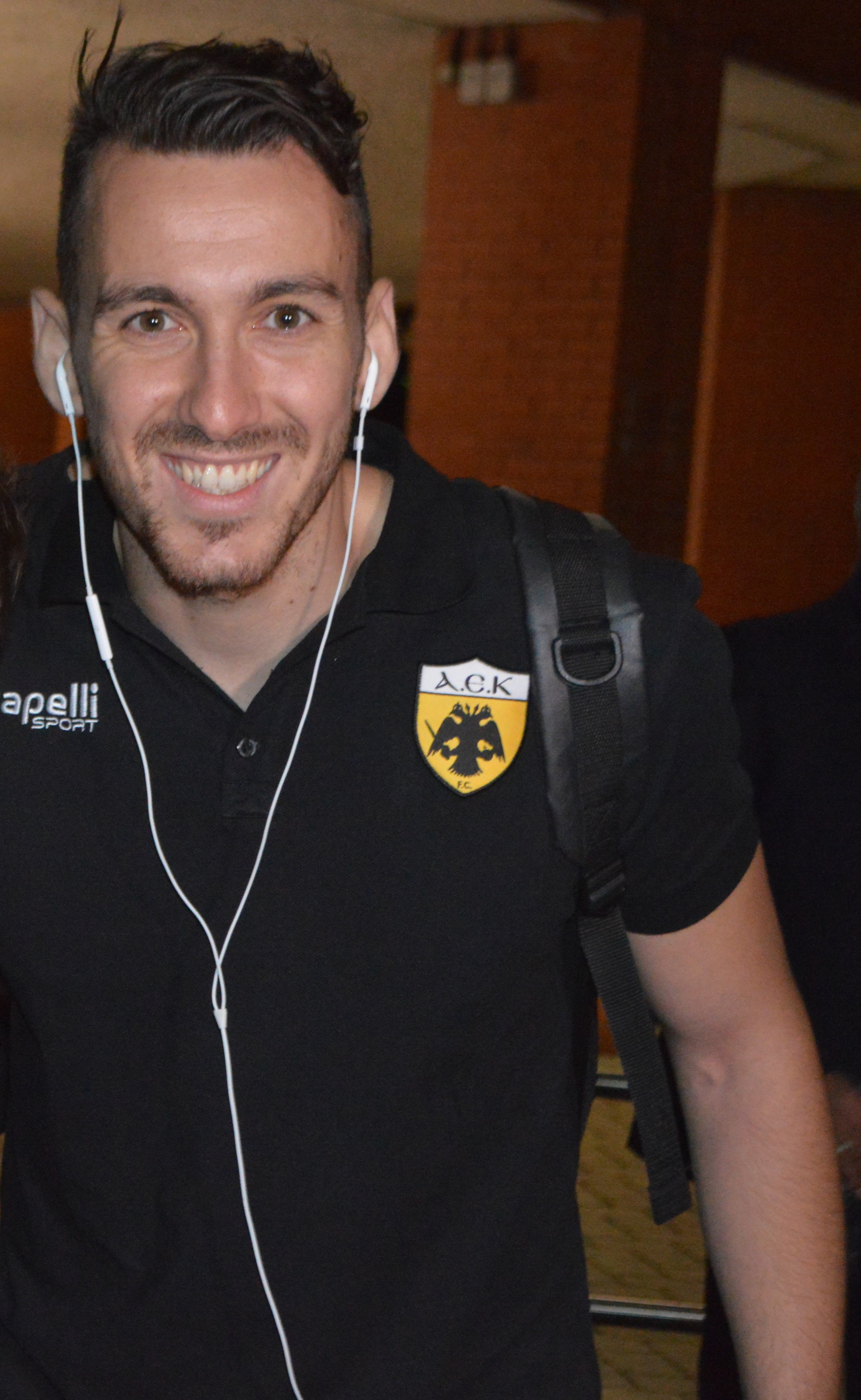 Giannikoglou AEK Celtic